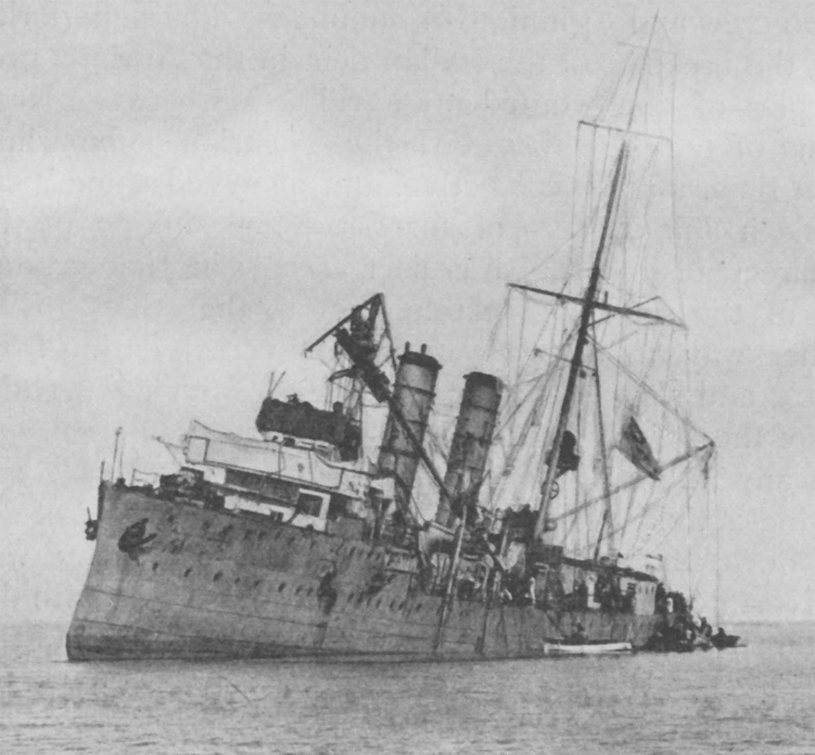 Wreck of german Minelaying Cruiser SMS Albatross beached on shore of Gotland, Sweden, July 1915